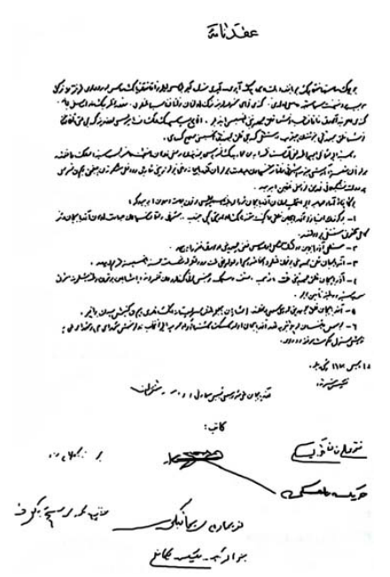 Original text of the Declaration of Independence of Azerbaijan.